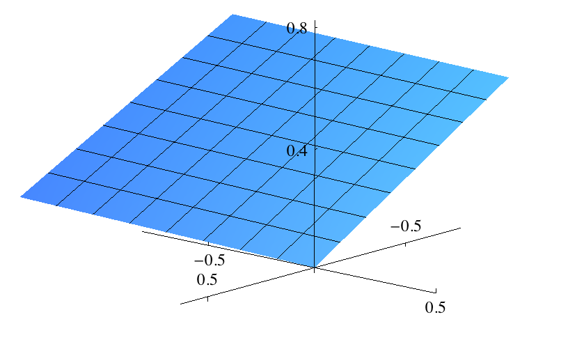 A fundamental domain in logarithmic space of the group of units of the number field K obtained by adjoining to Q a root of f(x) = x3 + x2 − 2x − 1. This field is a Galois extension of degree 3. Its discriminant is 49 = 72. If α denotes the root of f(x) which is approximately 1.24698, then a set of fundamental units is {ε1, ε2} where ε1 = α2 + α − 1 and ε2 = 2 − α2. The fundamental domain is spanned by v1 and v2 with the ith component of vj equal to log|σi(εj)|. So, approximately, v1 = (0.588863, −0.809587, 0.220724) and v1 = (−0.809587, 0.220724, 0.588863). The area of the fundamental domain is approximately 0.910114, so the regulator of K is approximately 0.525455. See Table B.4 of Cohen's A course in computational algebraic number theory (1993). Computed using PARI/GP. Plotted using Mathematica.